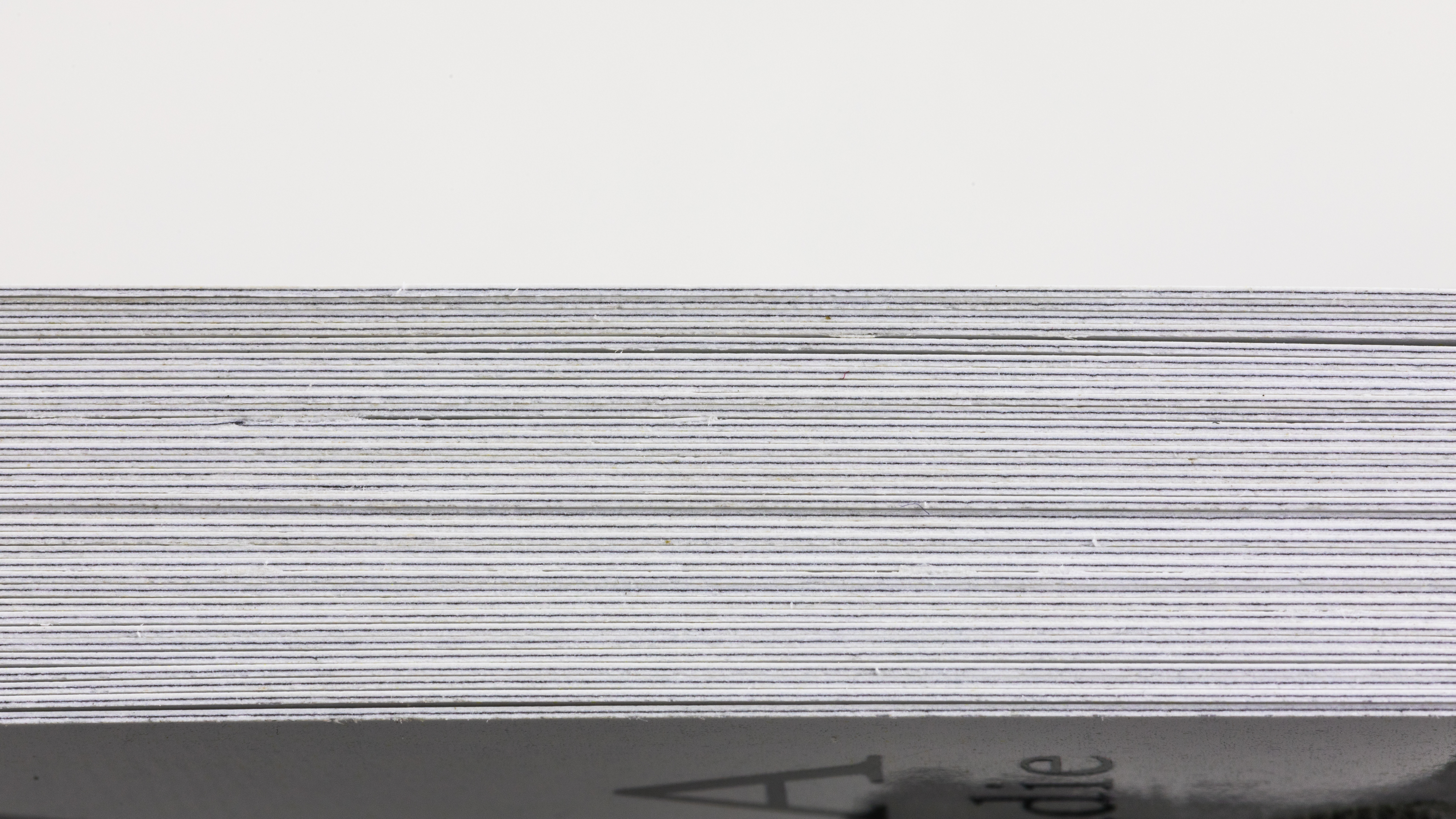 Side view of a playing card deck